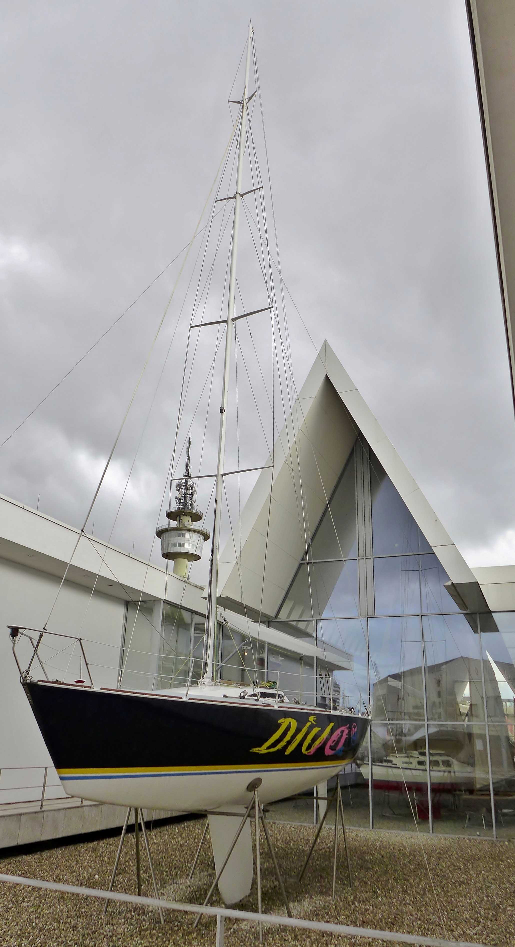 View of the former racing yacht Diva, which, together with Outsider and Rubin G VIII, made up the West German Admiral's Cup-winning team of 1985, on display at the German Maritime Museum (Deutsches Schiffahrtsmuseum (DSM))